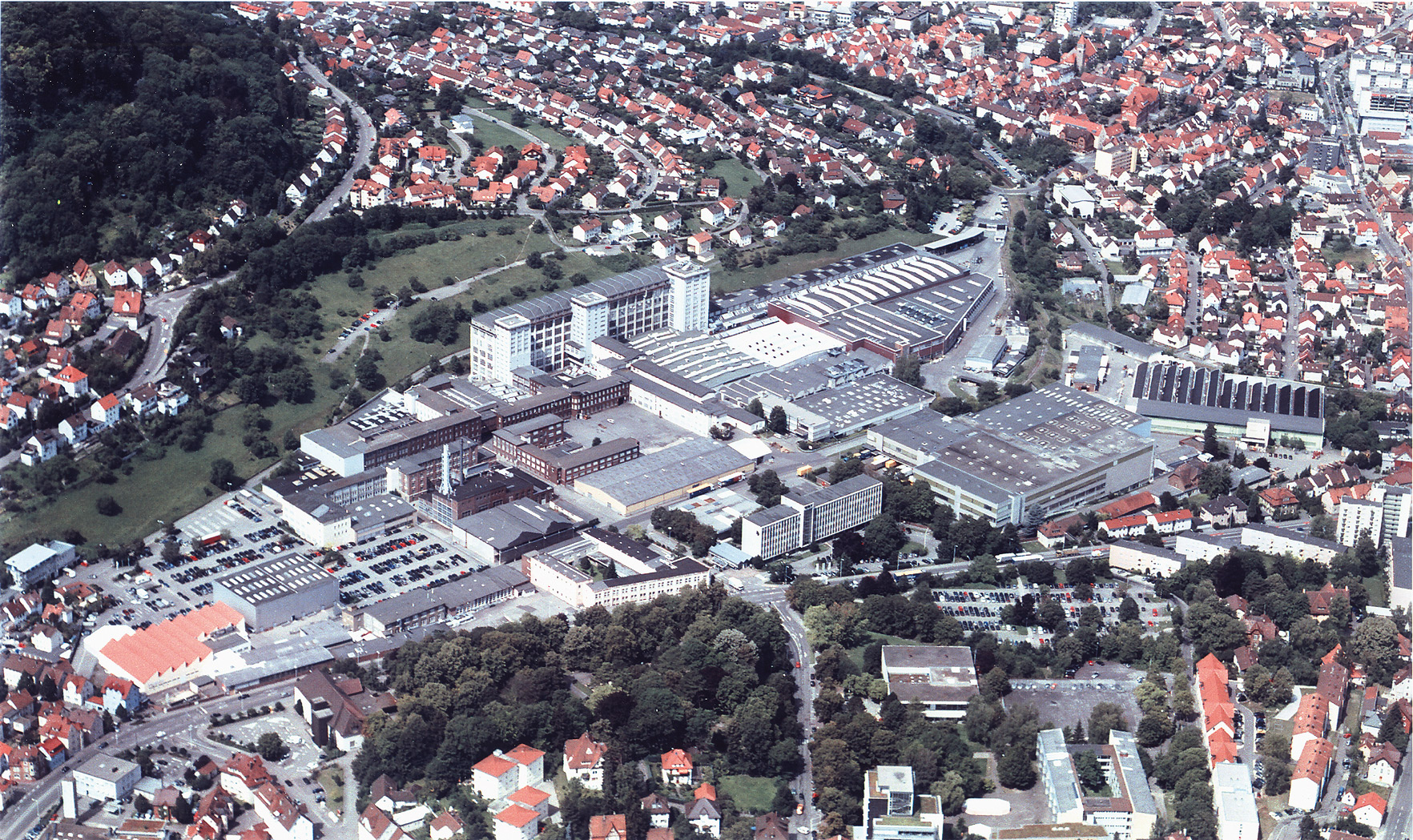 aerial photo of WMF (2007)